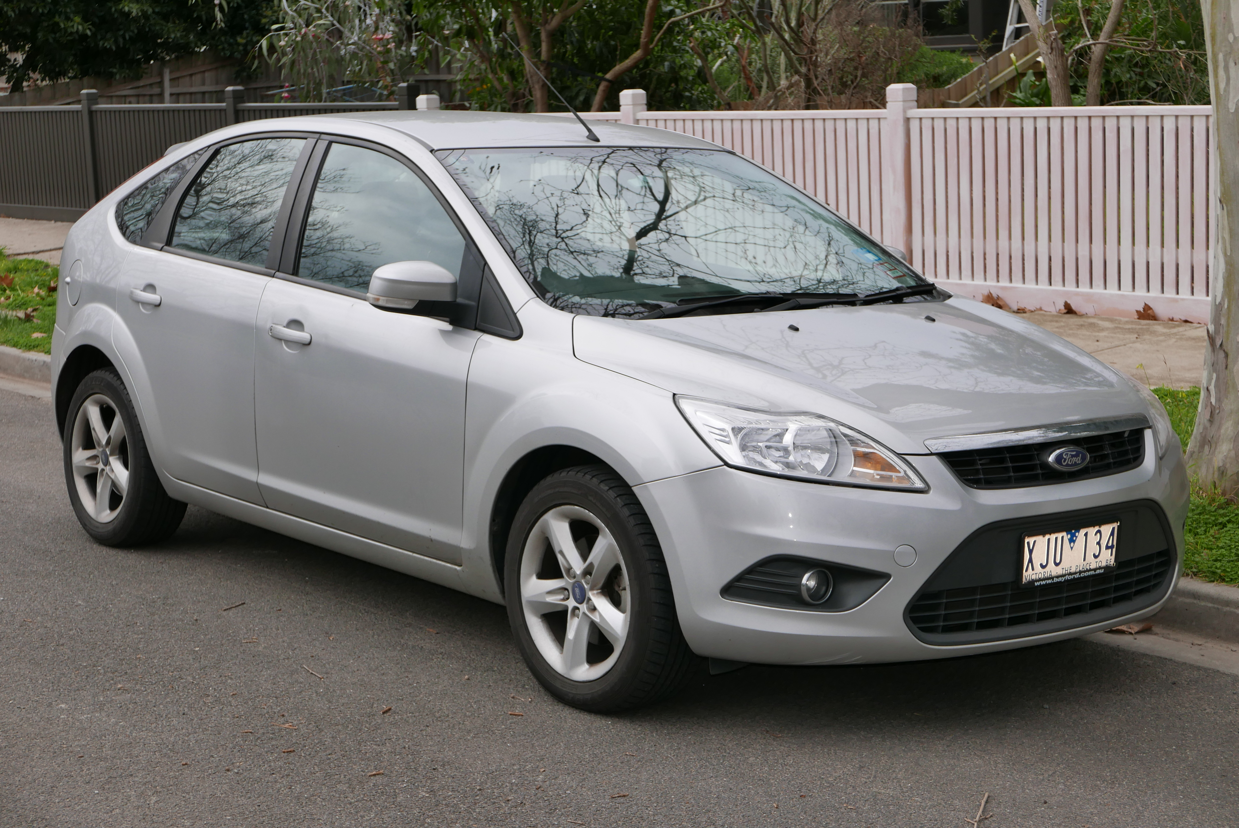 2009 Ford Focus (LV) TDCi 5-door hatchback. Photographed in Alphington, Victoria, Australia. Vehicle registration enquiry results Jurisdiction Victoria Registration XJU134 Chassis code AFAUXXMJDU8S03133 Engine code D4204T361945 Compliance date 2009-07 Year of manufacture 2009